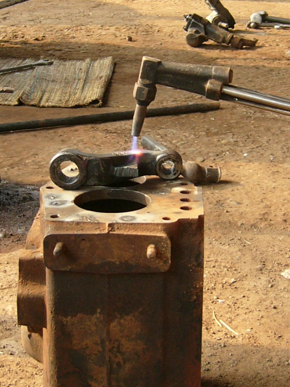 A cutting torch (note the three pipes of the torch to the right). It is being used to either cut a piece from the steering linkage, or (more likely) to heat it for forging or straightening it.